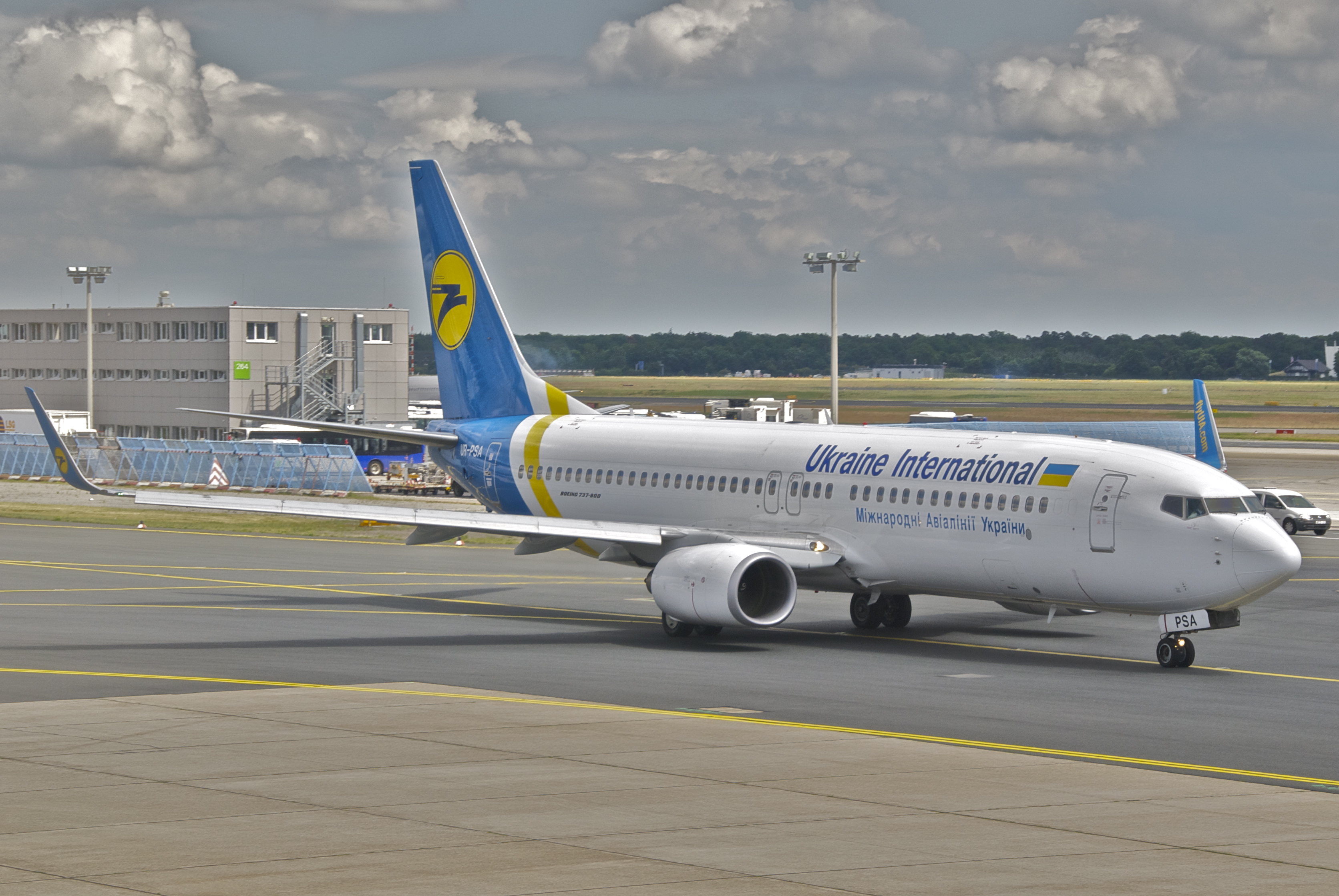 Ukraine International Airlines Boeing 737-800; UR-PSA@FRA;01.06.2012/653ft